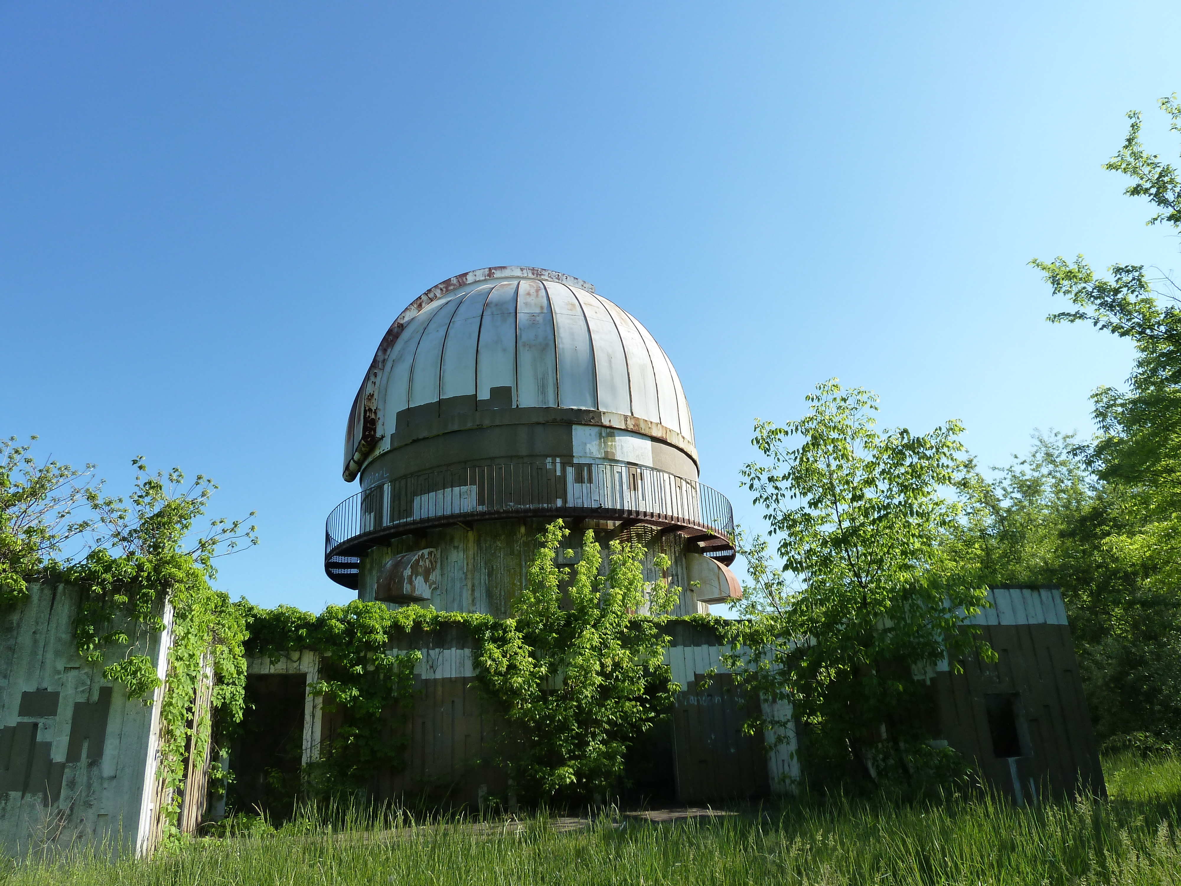 Small observatory formerly used by the University of Illinois Astronomy Department. This facility was in operation from 1968 until 1981. The observatory is located adjacent to Walnut Point State Park. In this view, you can see how overgrown the building is becoming.